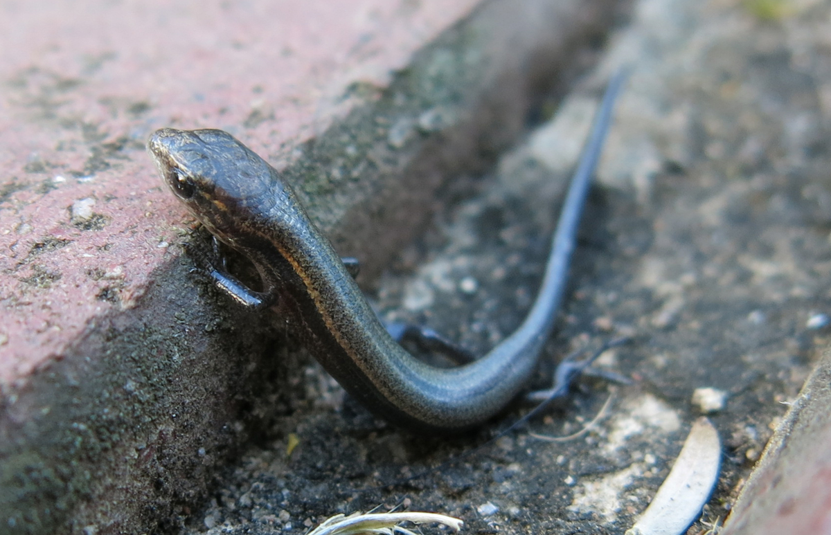 Wahlberg's Snake-eyed Skink, Afroablepharus wahlbergii, Durban, South Africa